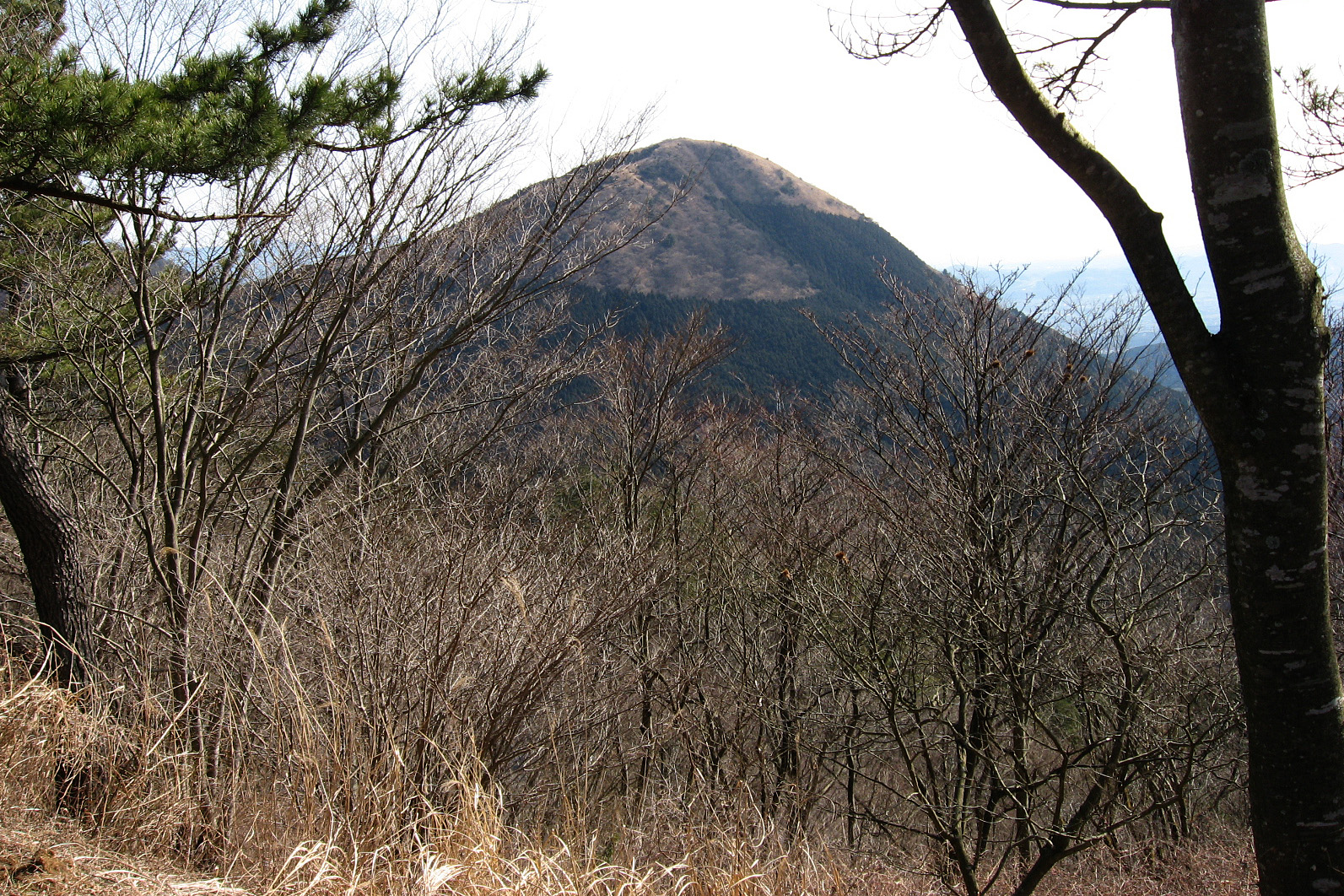 Mt. Yaguradake in Mts. Ashigara, Kanagawa Pref., Japan.